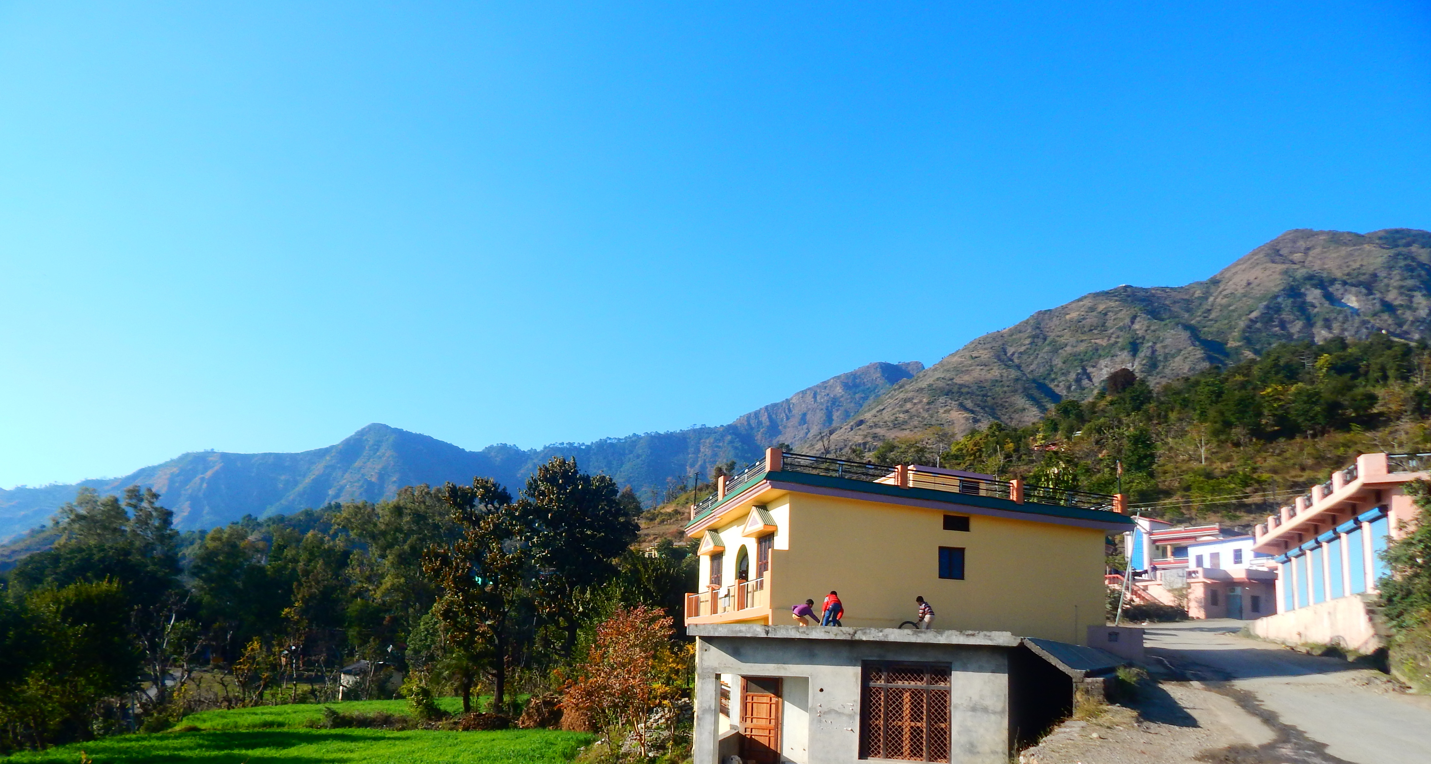 Clicked raw beauty in Himachal.